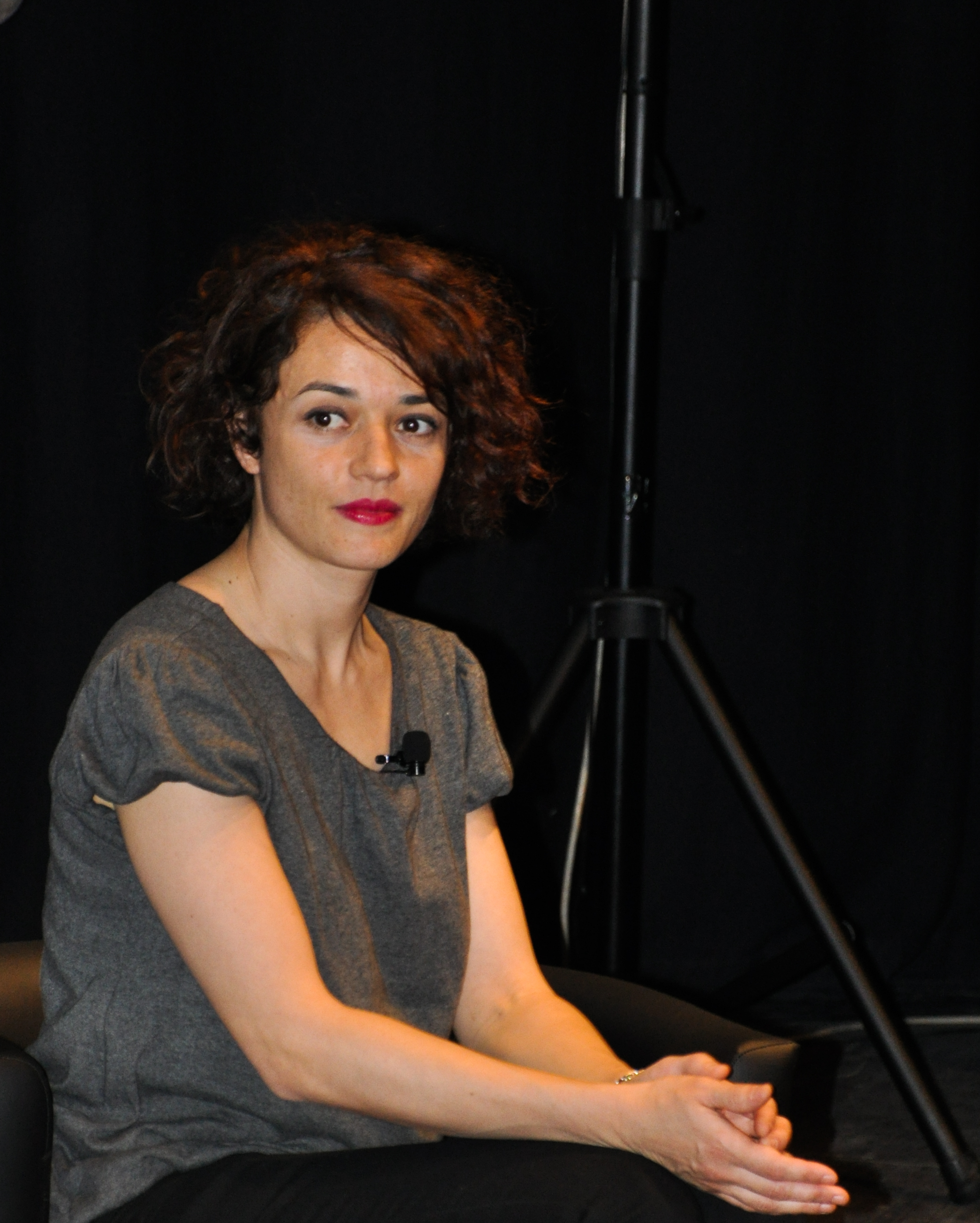 Italian singer Carmen Consoli at the International Journalism Festival in April 2010